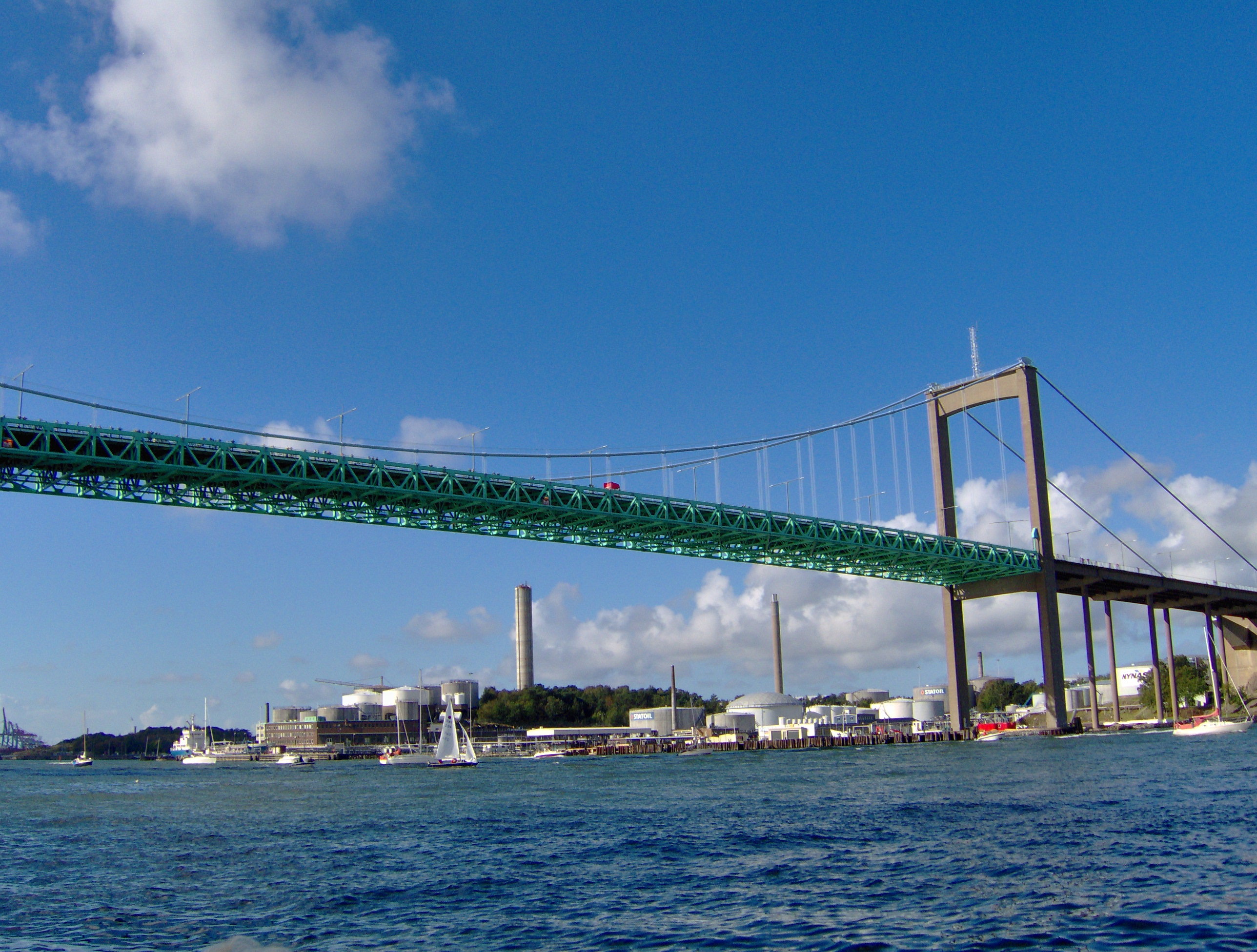 The Älvsborg Bridge near the Göta älv estuary, in the port of Gothenburg, in Sweden